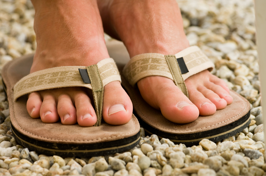 Man's Feet